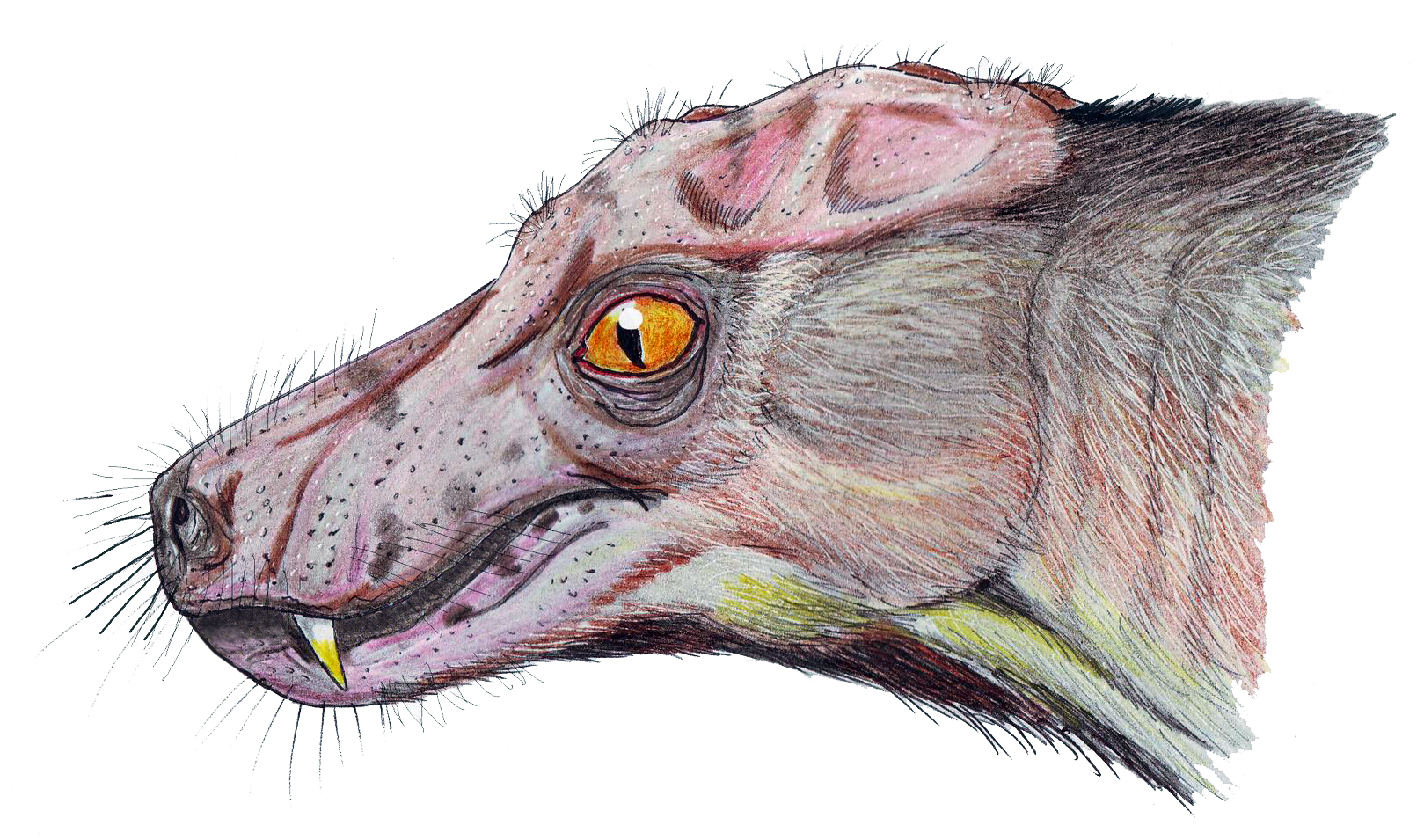 Porosteognathus efremovi